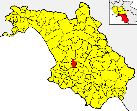 Locator map of the municipality of Monteforte Cilento (red) within the Province of Salerno